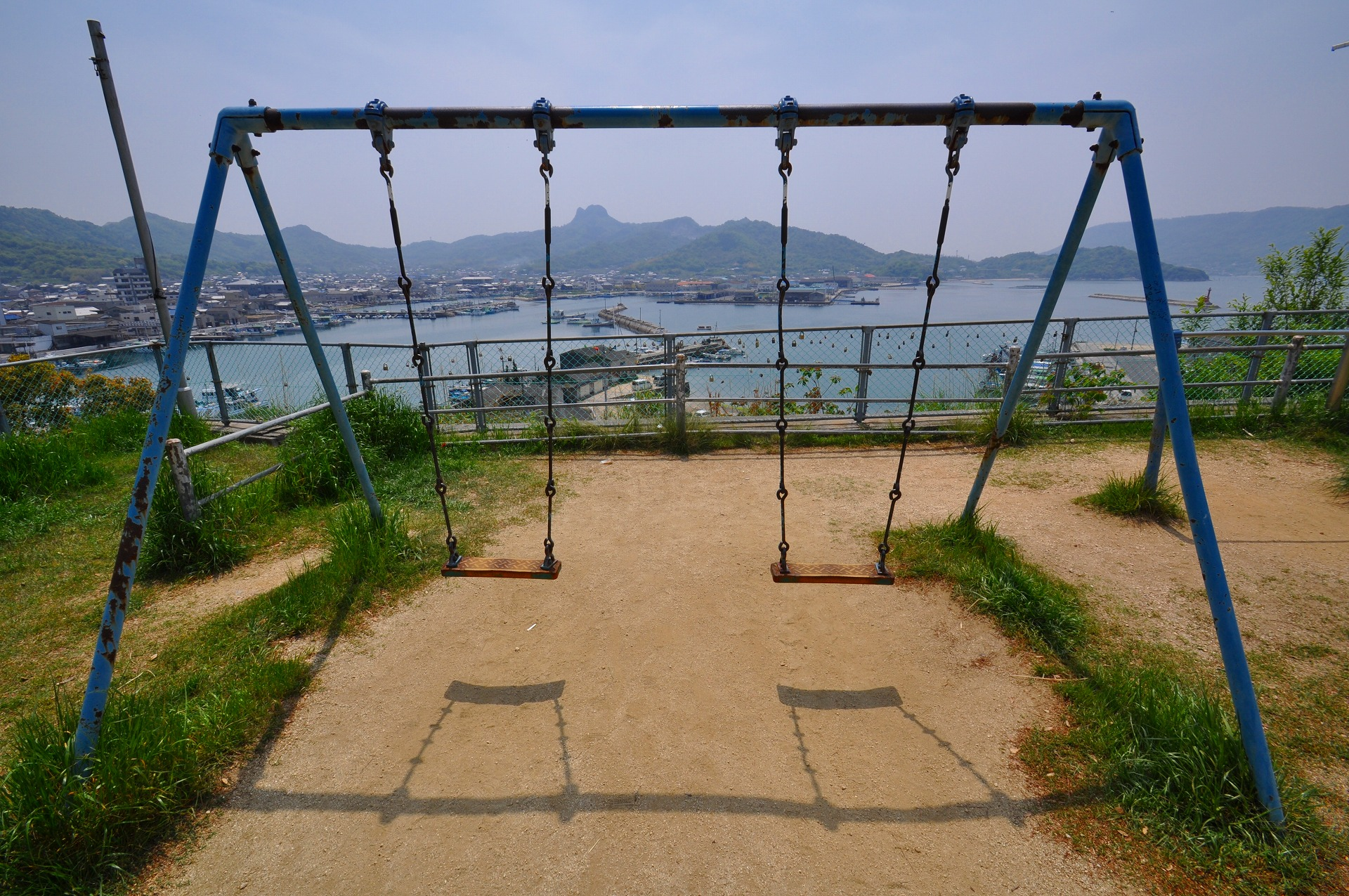 Swing seat at Ouji-jinja （Takamatsu city）